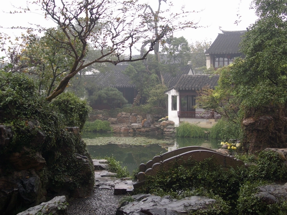 Master of the Nets Garden in Suzhou.